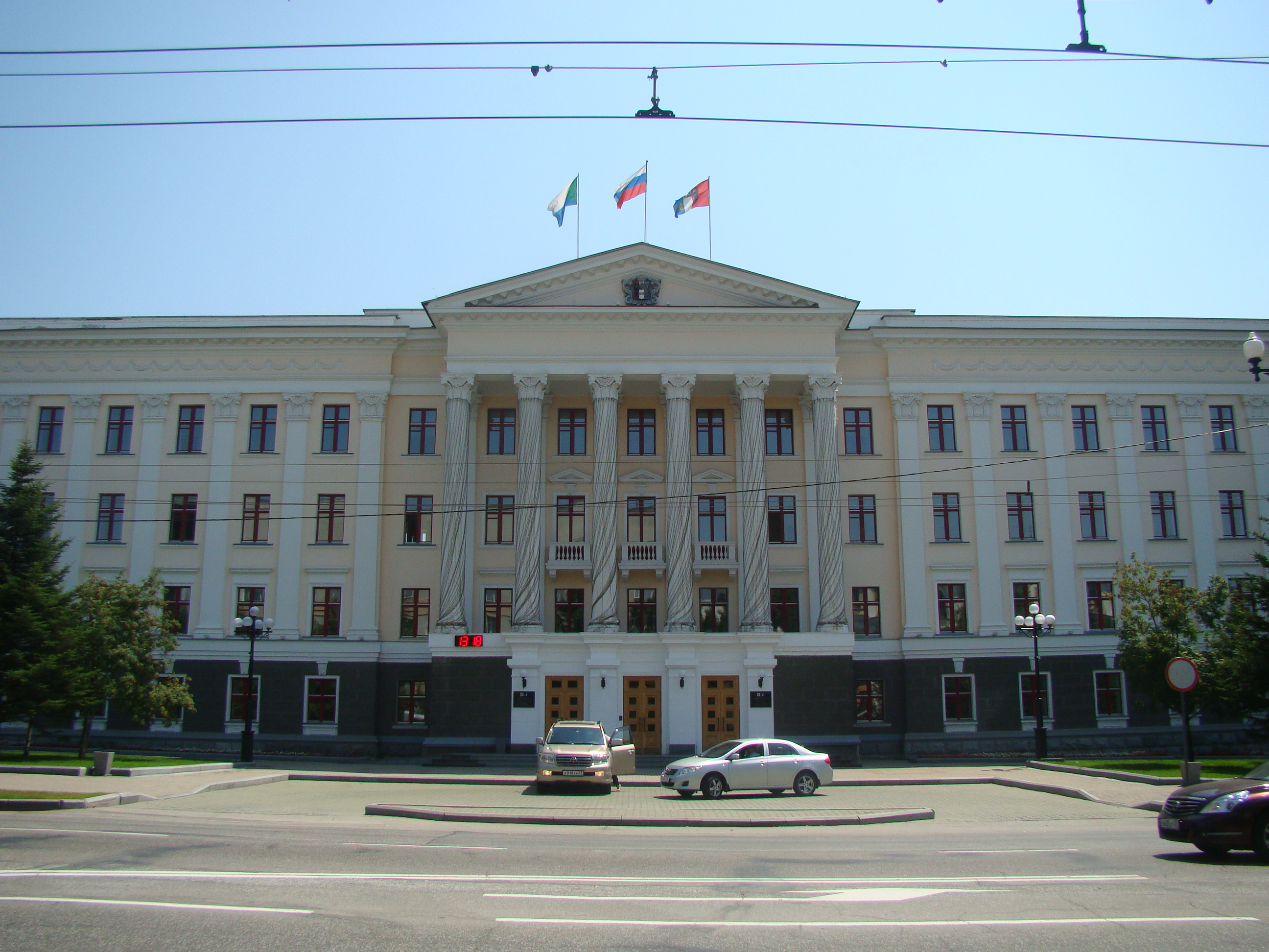 Russia. Khabarovsk. City administration 2015